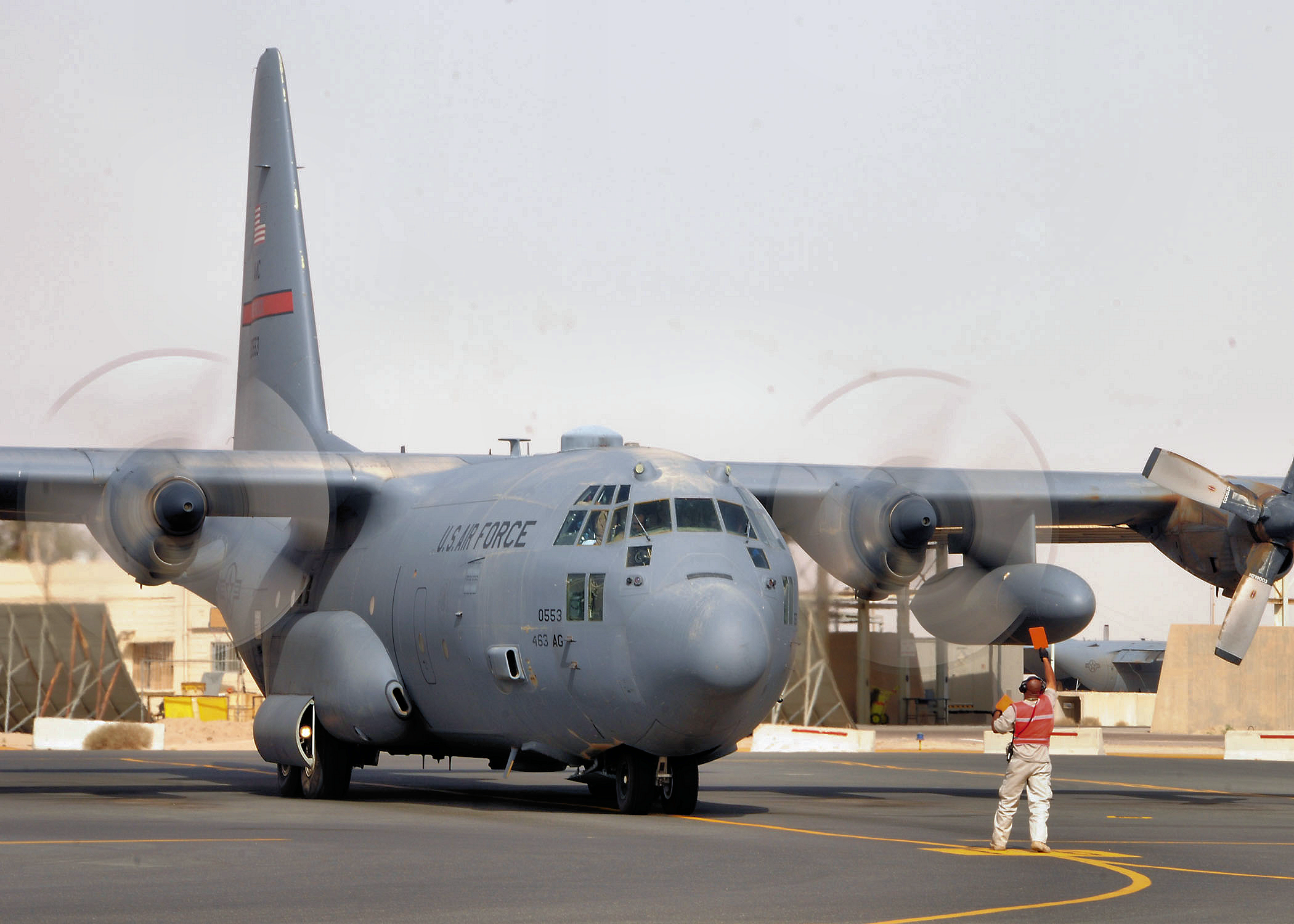 A C-130 Hercules is marshaled into position at the 386th Air Expeditionary Wing parking ramp at an undisclosed location in Southwest Asia July 18. The aircraft is assigned to the 777th Expeditionary Airlift Squadron, Joint Base Balad, Iraq and is deployed from the 189th Airlift Wing, Little Rock Air Force Base, Ark. (U.S. Air Force photo/Tech Sgt. Tony Tolley)